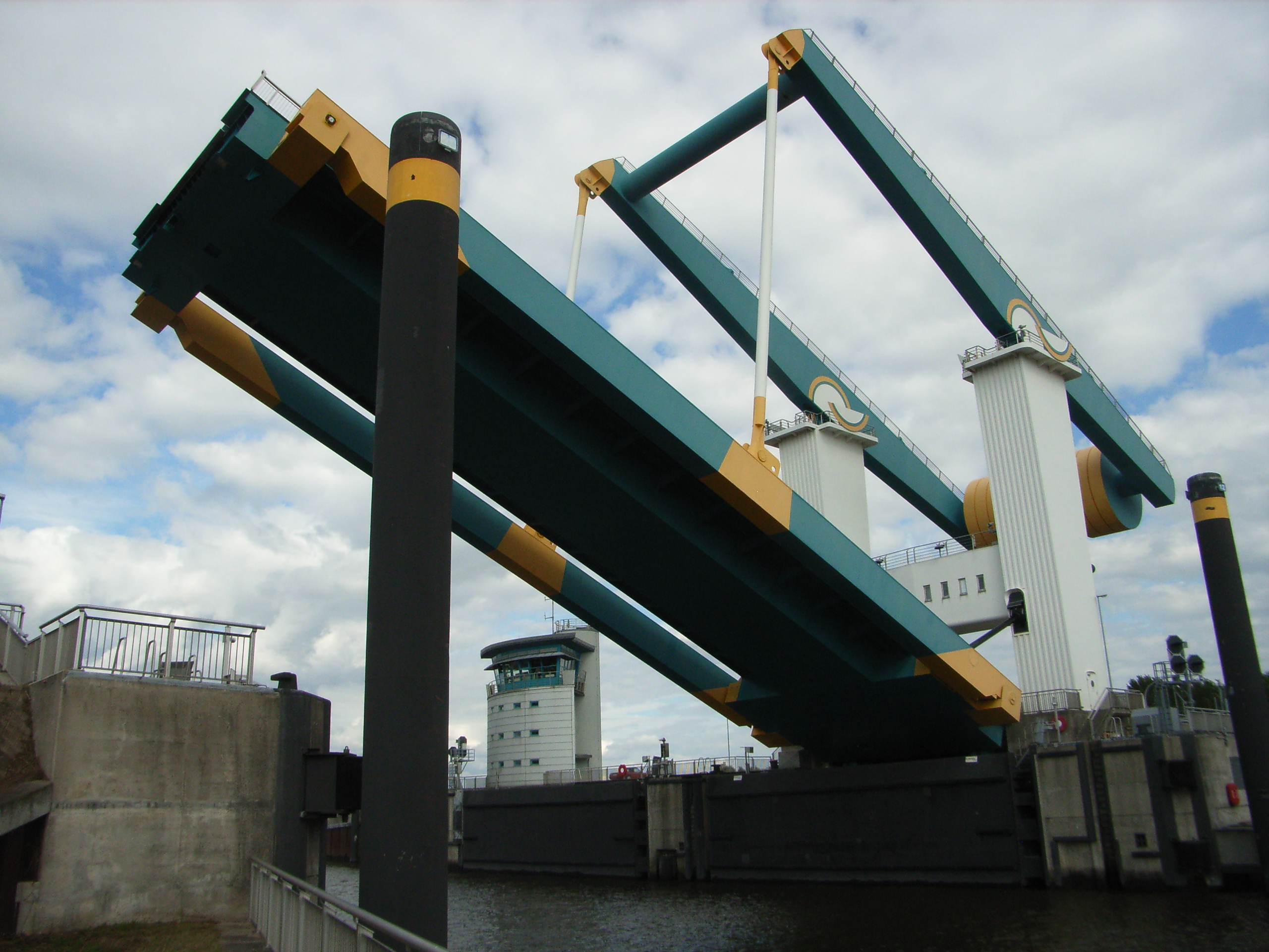 Este Barrage (Estesperrwerk) in Cranz (Hamburg), Germany